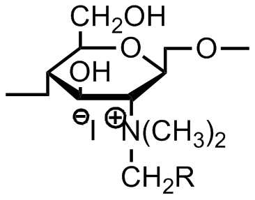 Figure 2. Quaternized N-alklyl Chitosan.